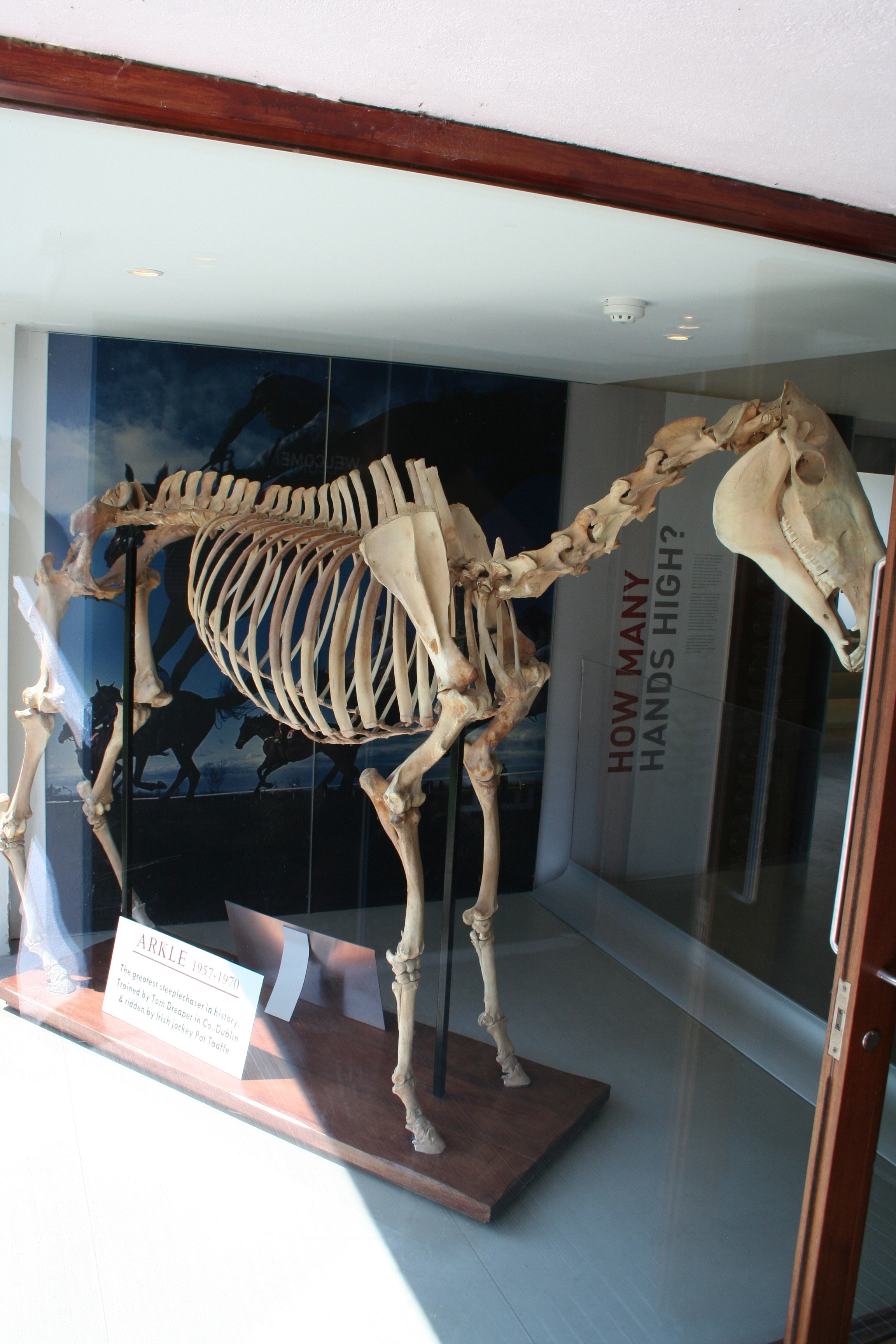 Skeleton of the racehorse Arkle.